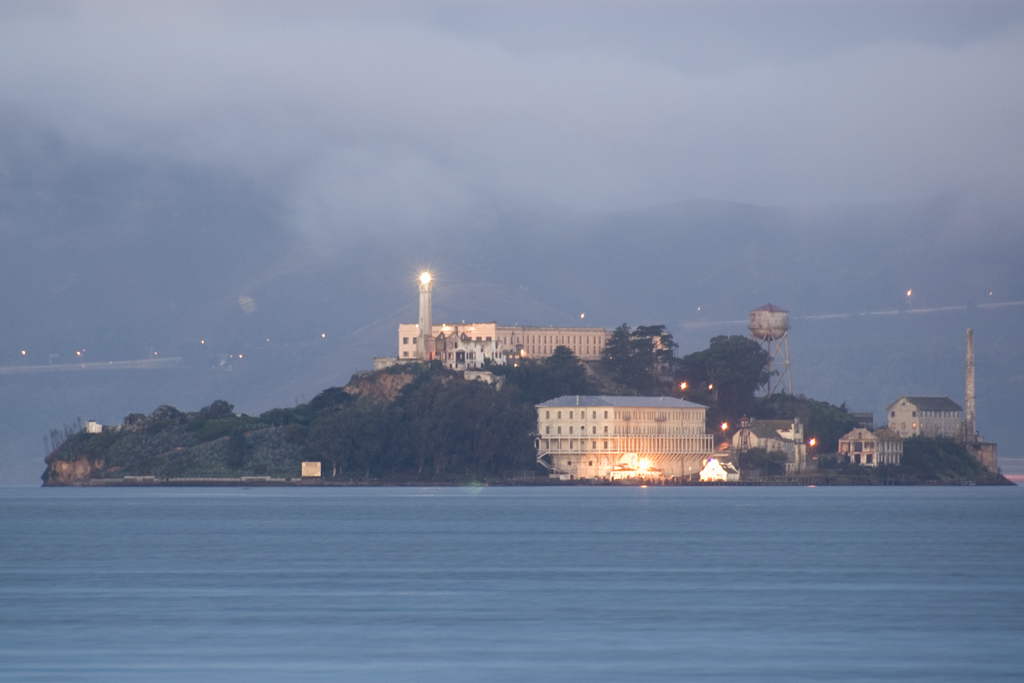 Alcatraz from Treasure Island, 01/07/2005 7am